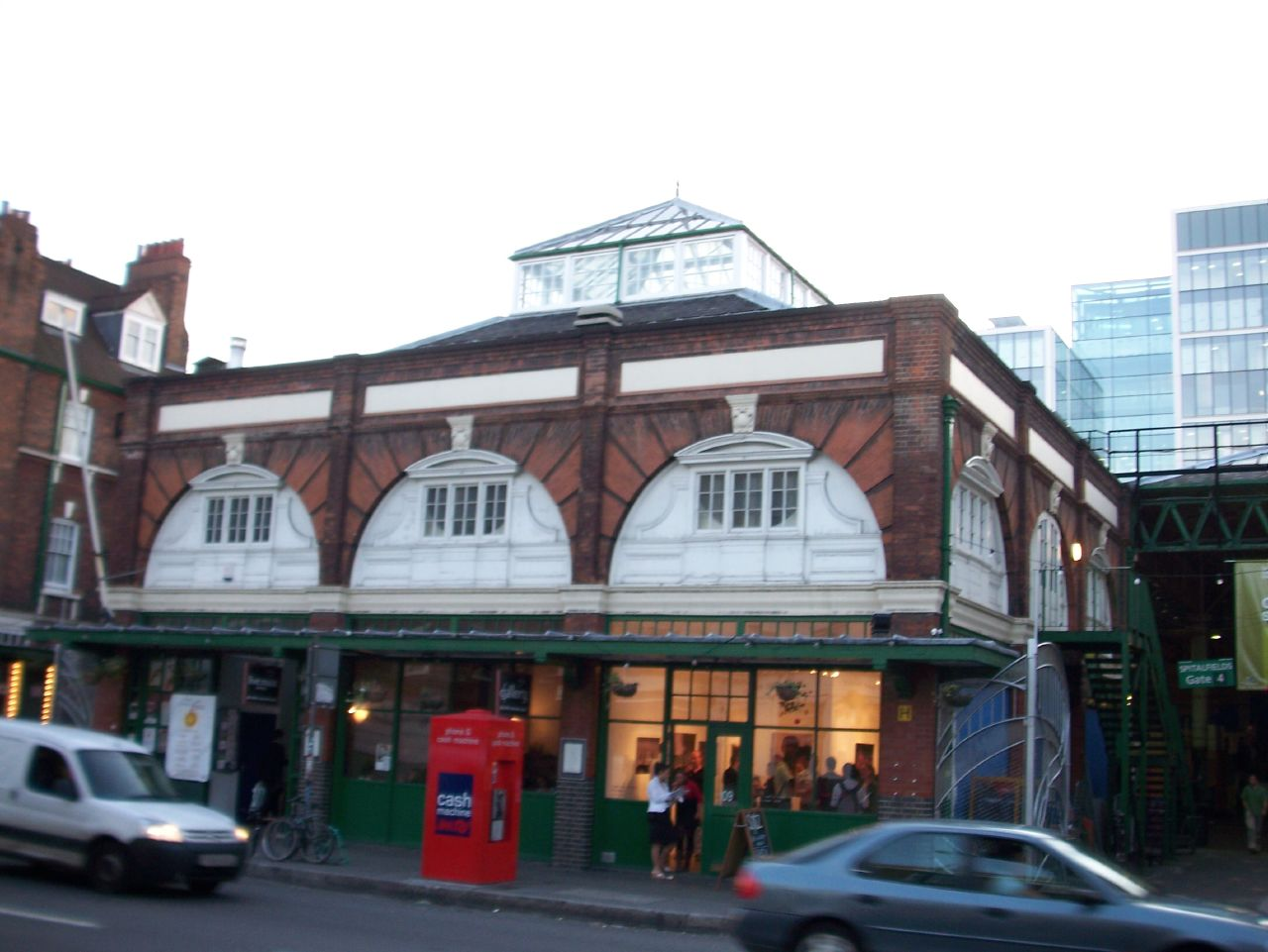 The Spitz